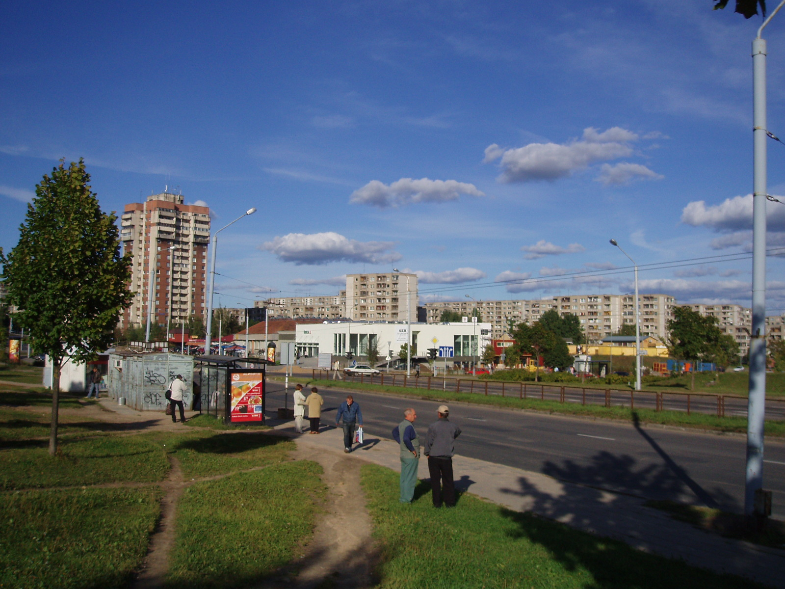 Justiniškės. Photo under authority of redleys.